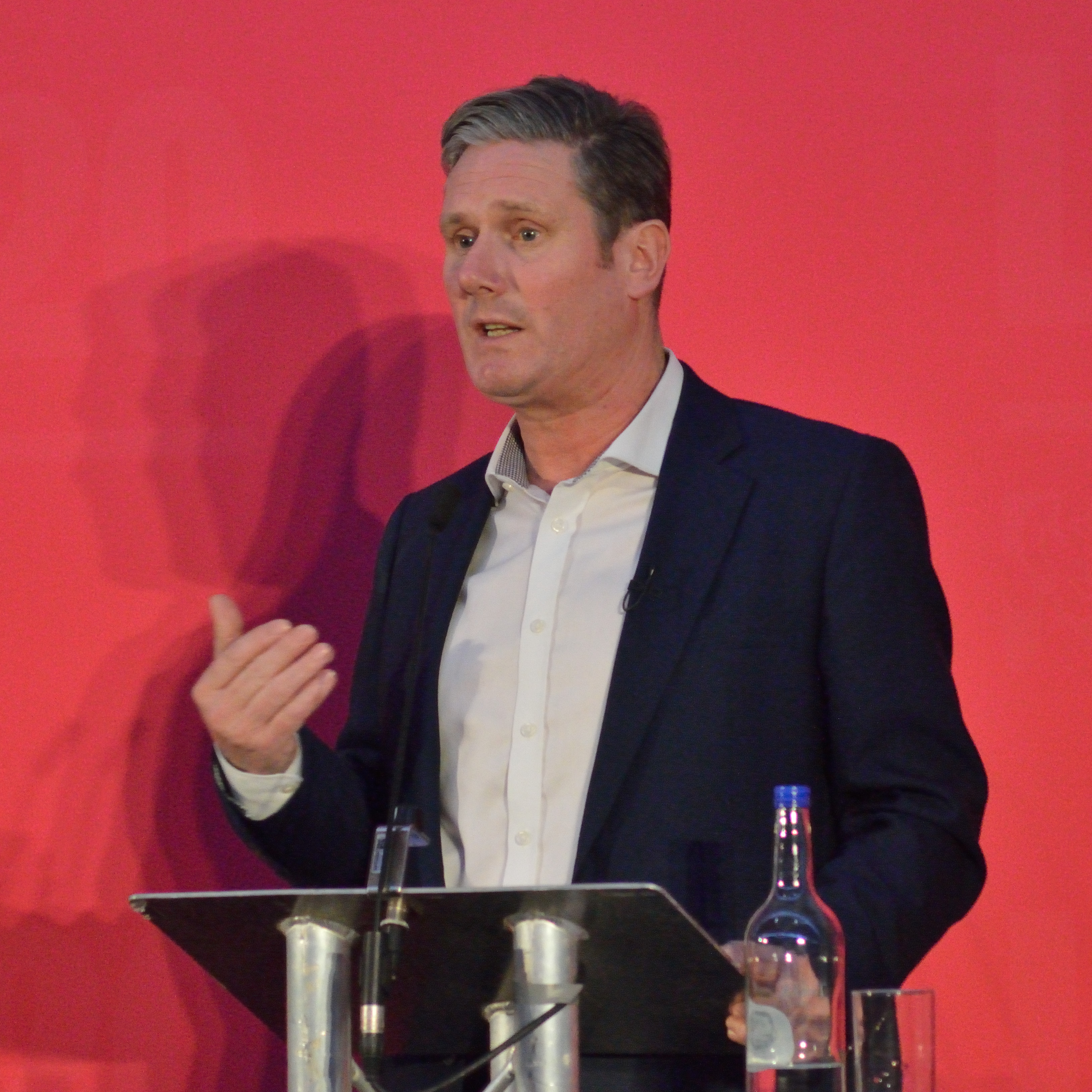 Keir Starmer speaking at the 2020 Labour Party leadership election hustings in Bristol on the morning of Saturday 1 February 2020, in the Ashton Gate Stadium Lansdown Stand.